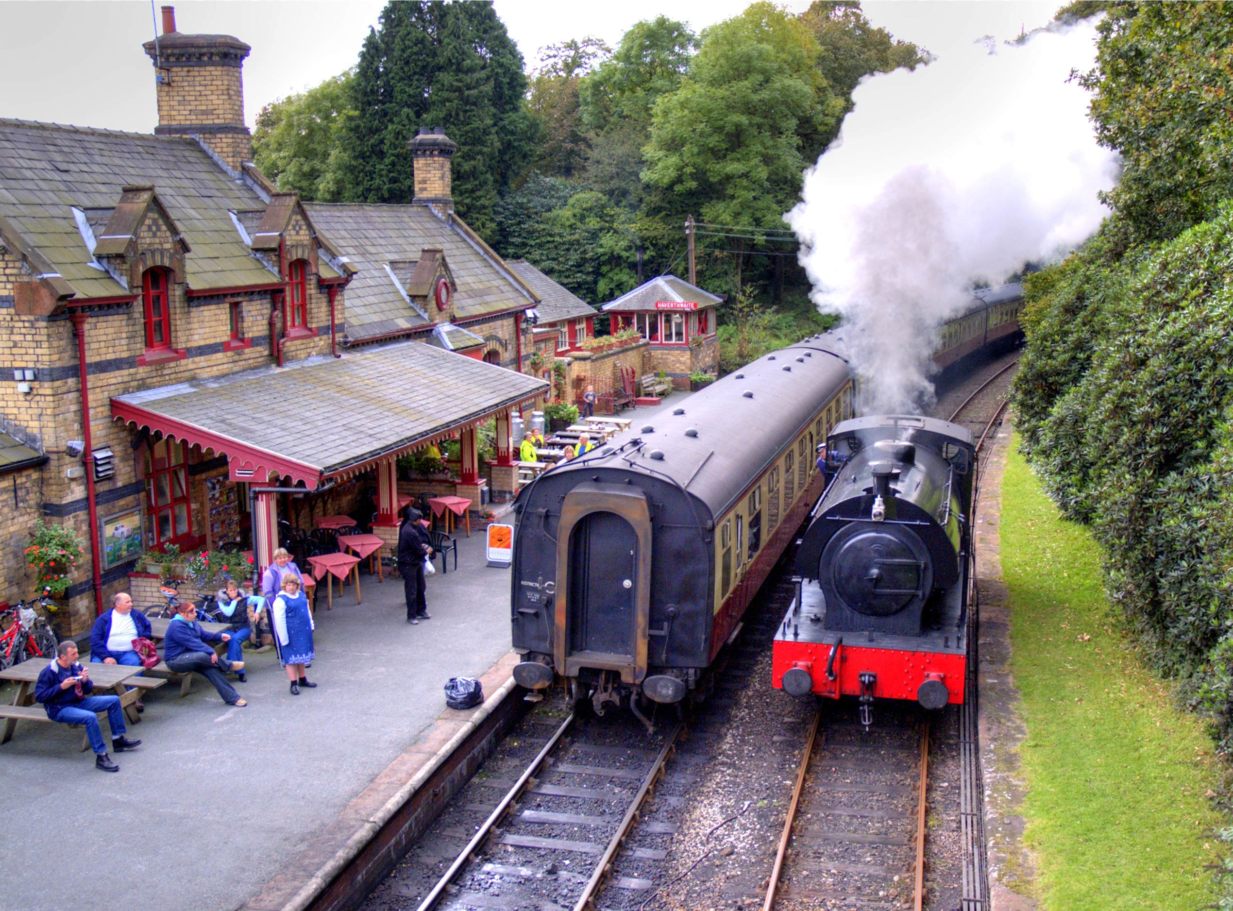 Summary:'Repulse' passes the up train at Haverthwaite Station. The Lakeside and Haverthwaite Railway is a heritage railway in Cumbria, England. The line runs from Haverthwaite via Newby Bridge to Lakeside at the southern end of Lake Windermere. Some services are timed to connect with sailings of the steamers on Windermere, sailing up to Bowness and Ambleside.